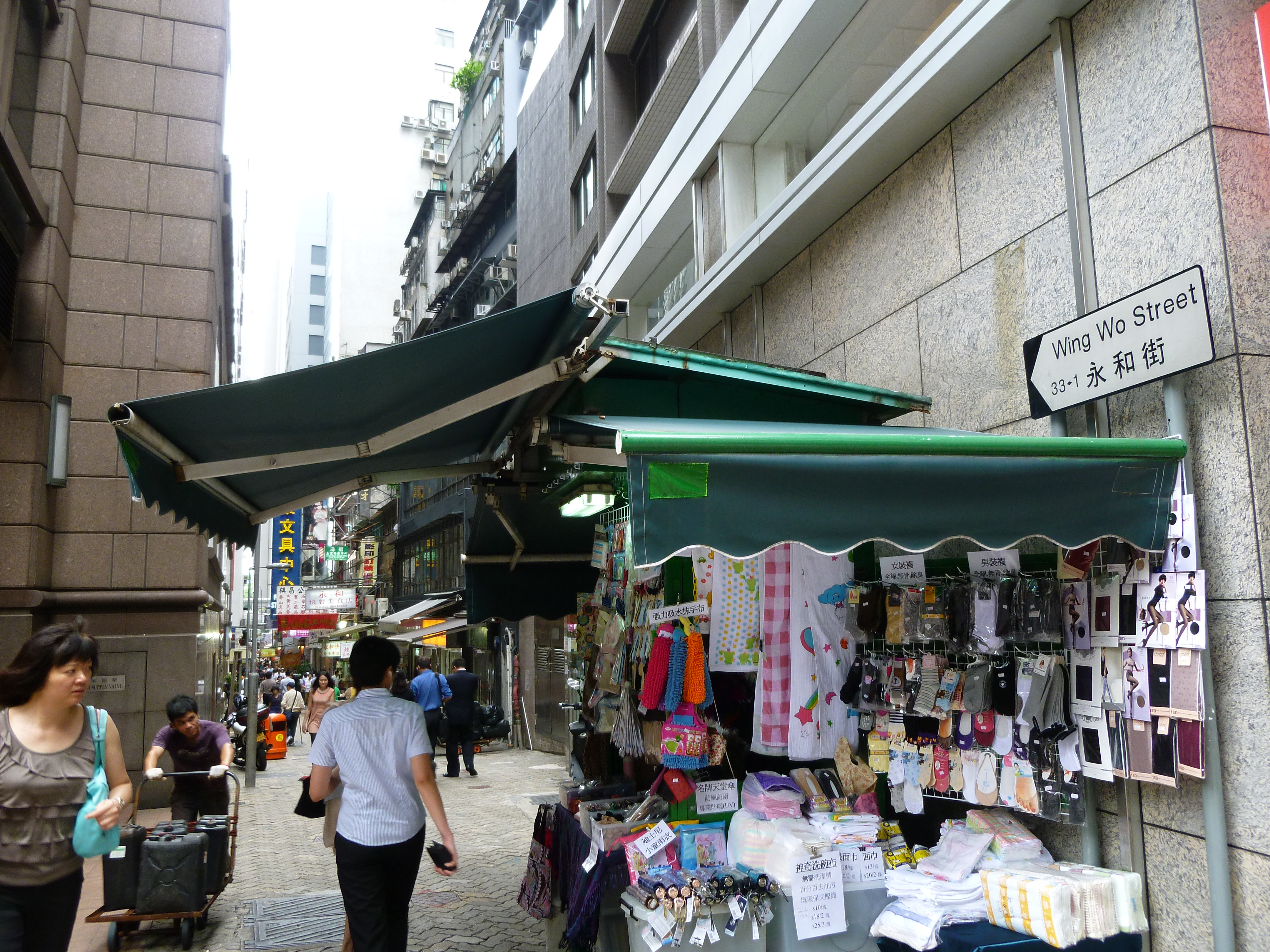 Wing Wo Street, Sheung Wan, Hong Kong